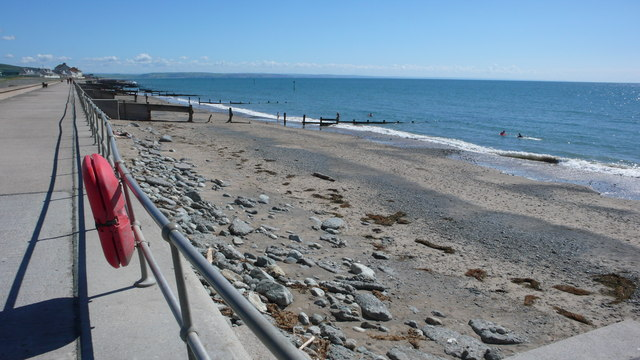 Promenade, North Beach, Tywyn